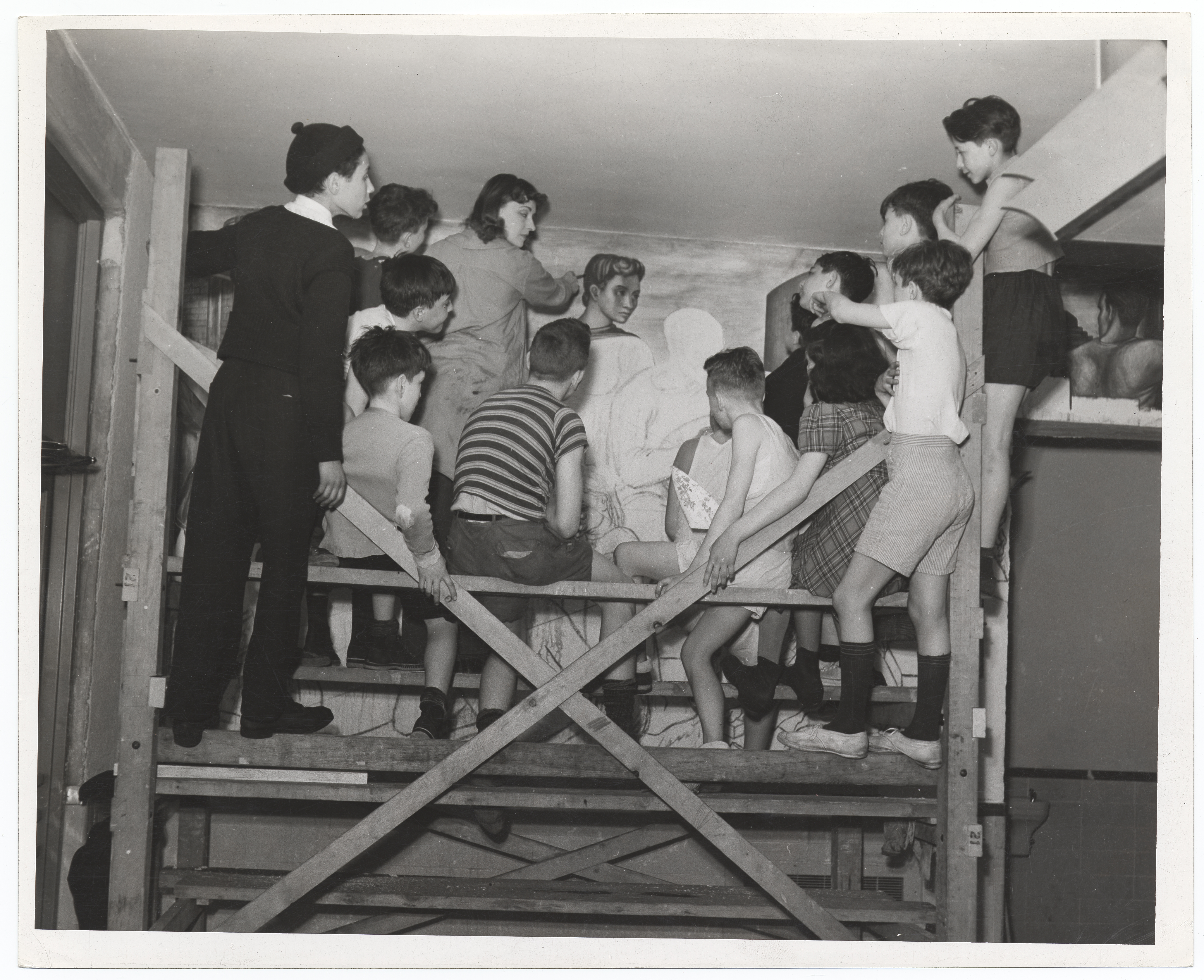 Greenwood with a group of children on scaffolding. Photographed for the WPA. Identification on verso (handwritten and stamped): Art Project W.P.A.; Photographic Division; 110 King Street; New York City Negative No.: 4587-2; Date: 4-8-40; Photographer: Black; Artist: M. Greenwood; Medium: fresco mural; Location: Red Hook Housing Project; Group of Children.